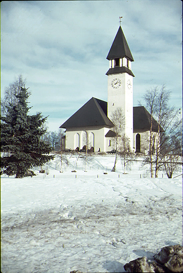 Burträsk kyrka, Burträsk